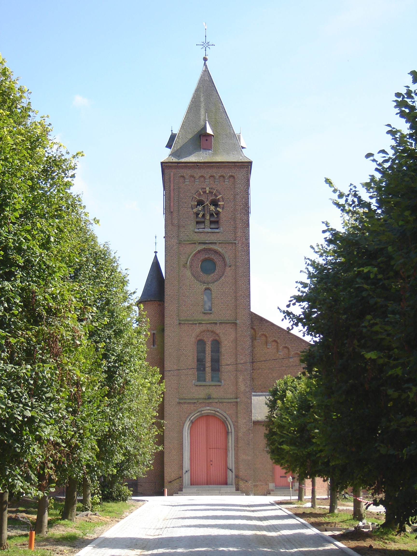 Church of Our Lady of La Salette in Louise-Marie. Hamlet of Louise-Marie, on the border of Etikhove, Nukerke (both Maarkedal) and Ronse, East Flanders, Belgium.